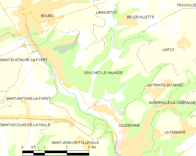 Map of French municipality Gruchet-le-Valasse